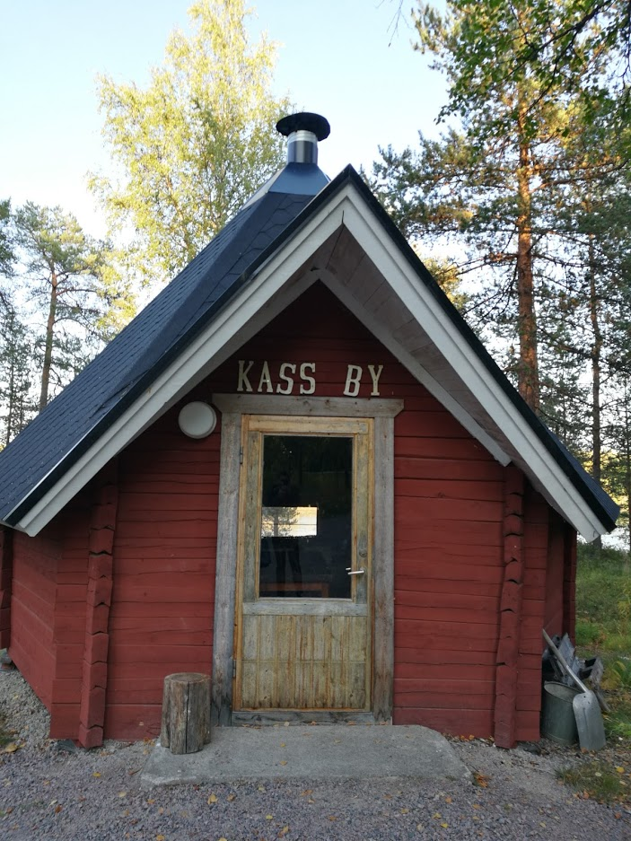 Cabin in Kassa